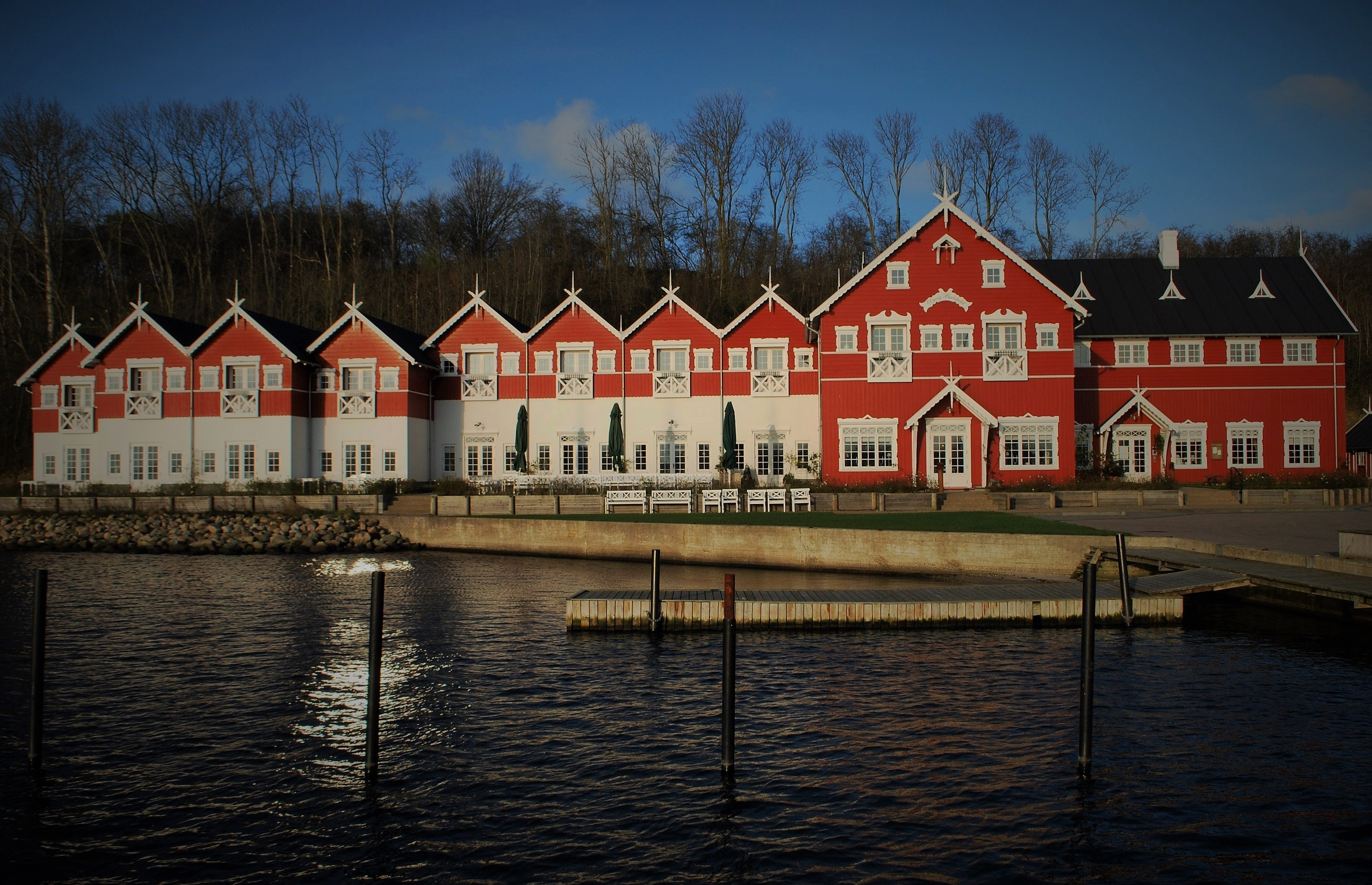 Dyvig Badehotel, Holm, Denmark